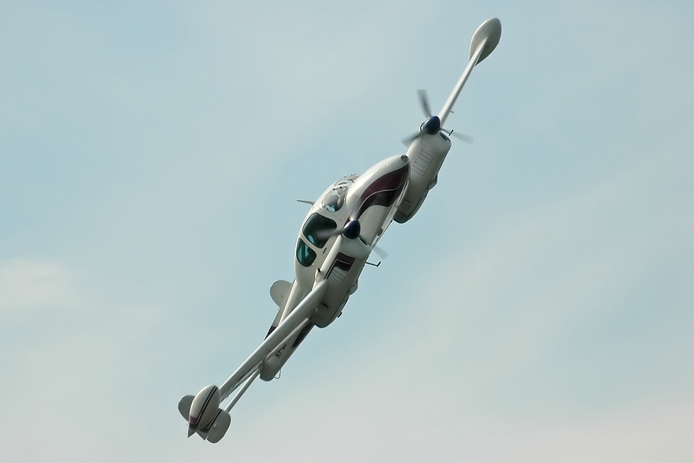 Let L-200 Morava Author: Dmitry A. Mottl email: dm_at_mottl.ru